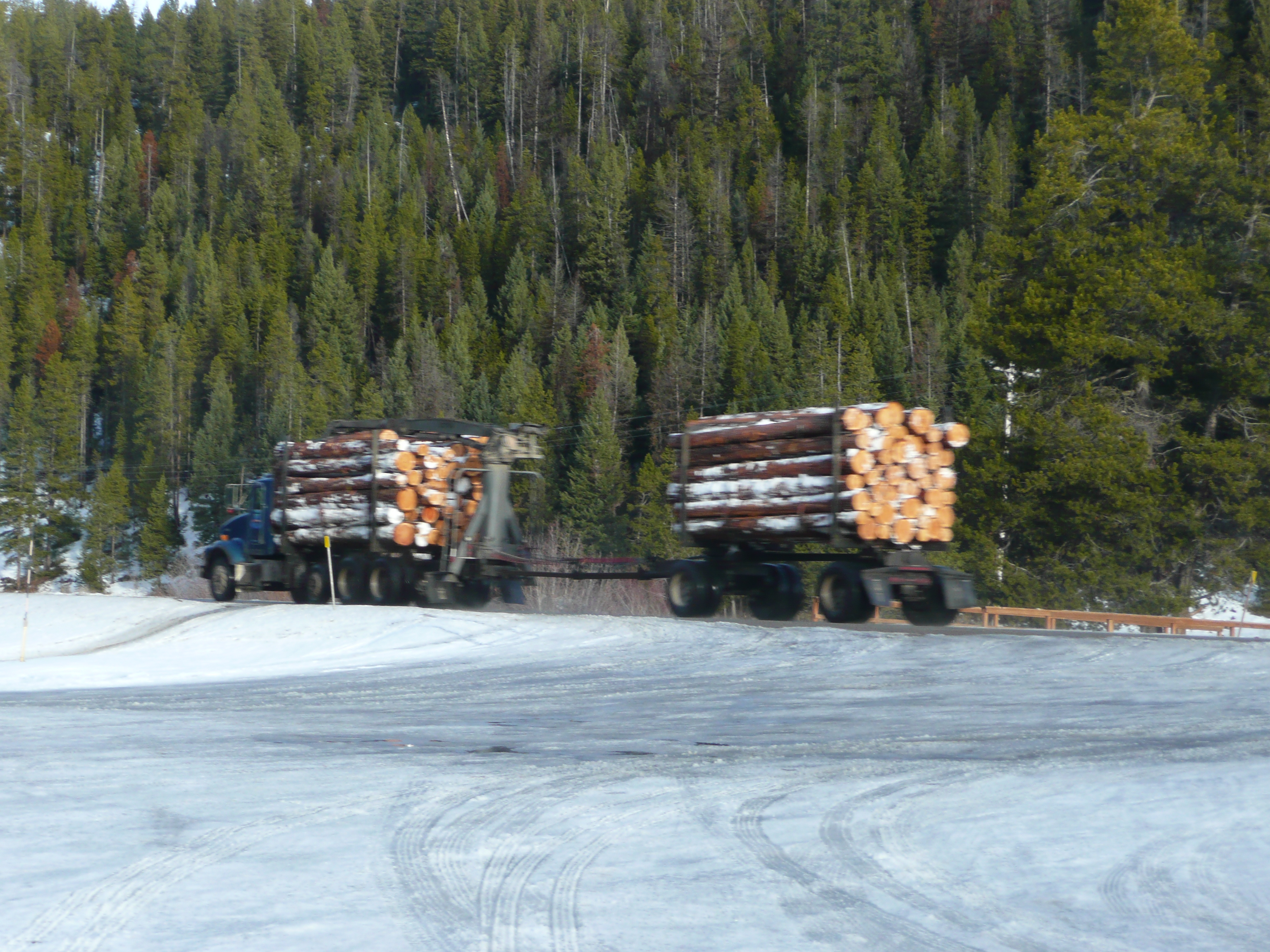 Lolo Hot Springs, Lolo, MT, 2011